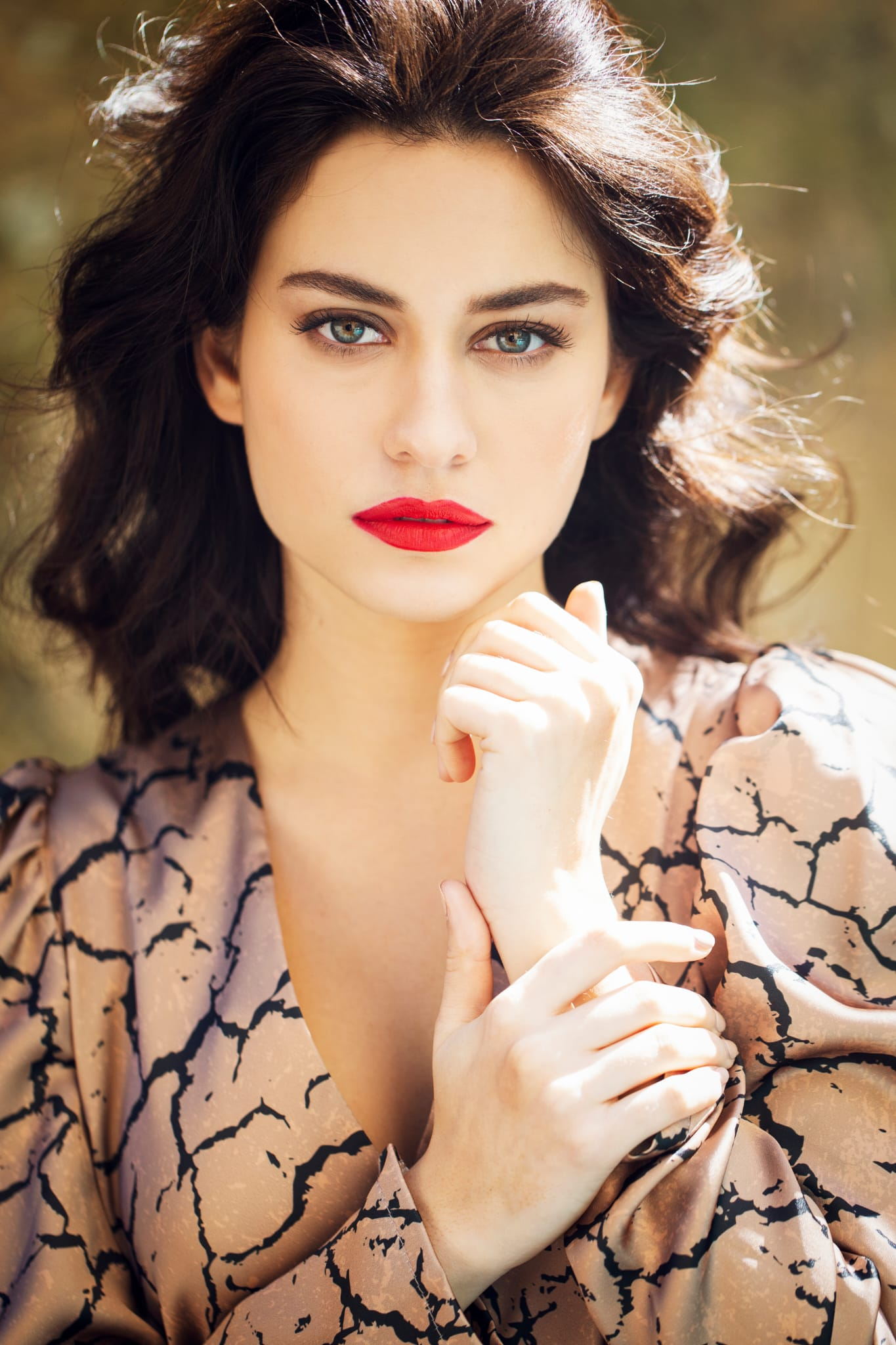 Alessia Scriboni